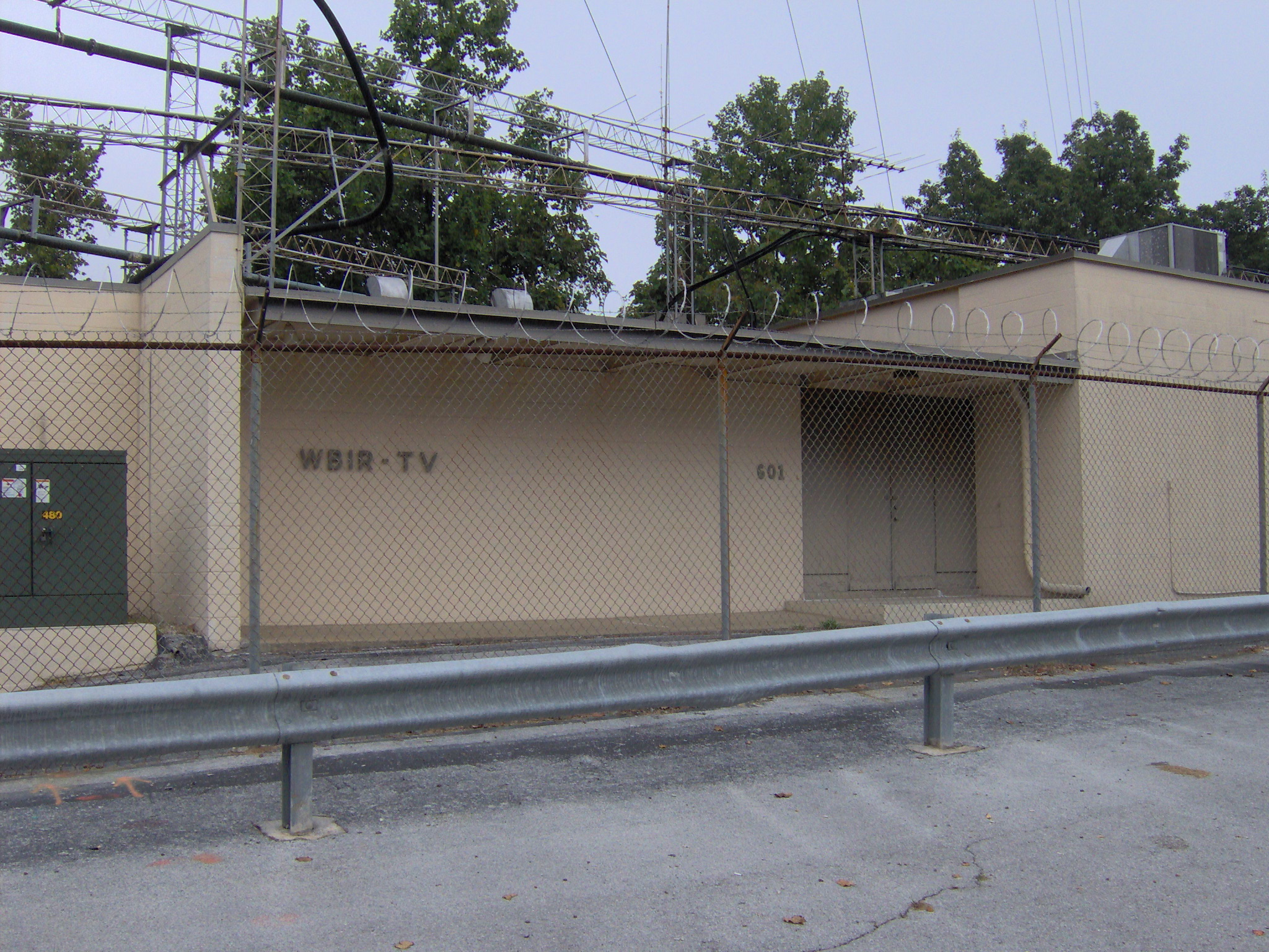 WBIR-TV transmission station atop Sharp's Ridge in the U.S. city of Knoxville, Tennessee.